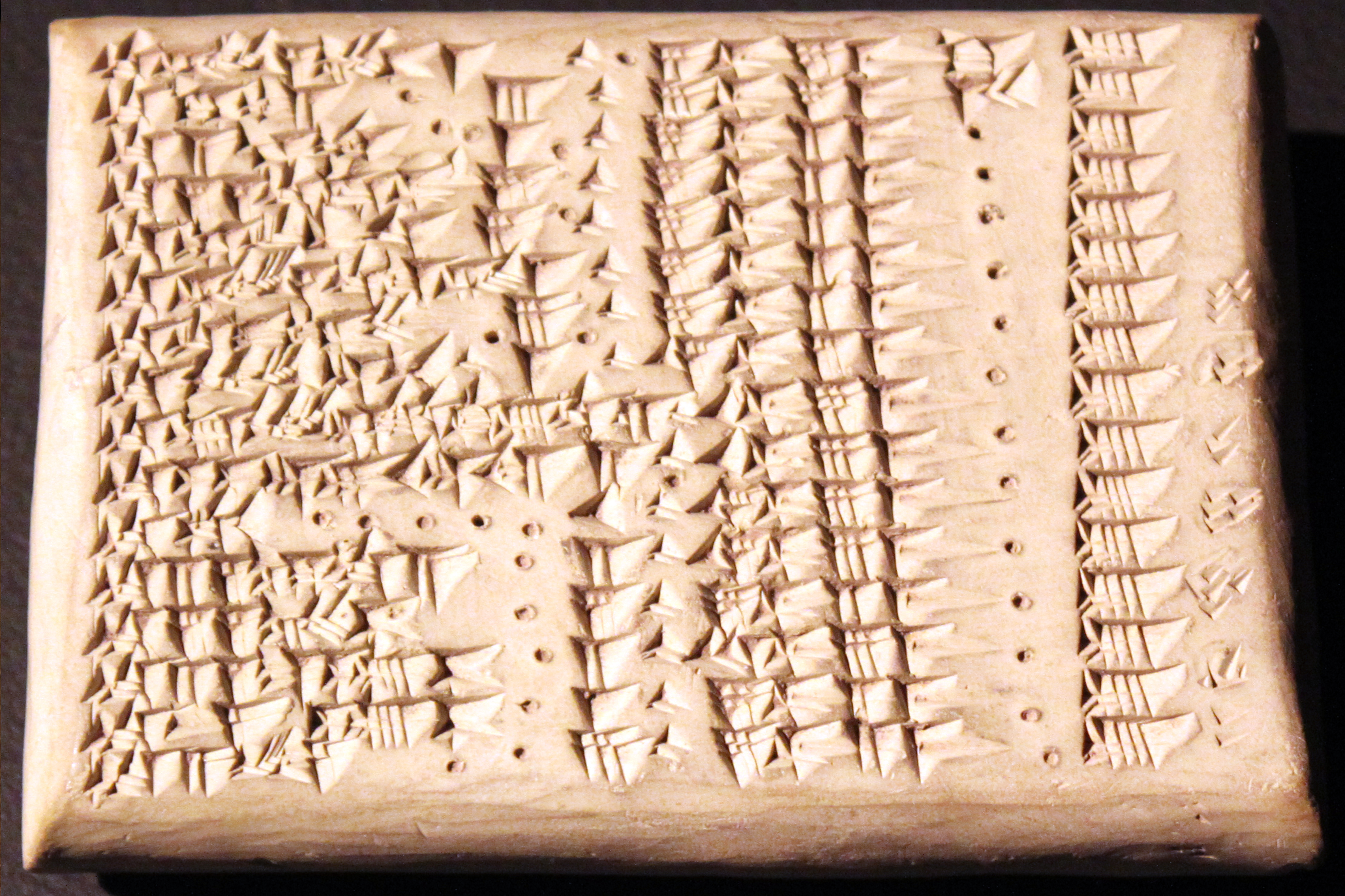 Star list with distance information, Uruk (Iraq), 320-150 BC, the list gives each constellation, the number of stars and the distance information to the next constellation in ells. Special exhibition "Beyond the Horizon - Space and Knowledge in the Old World cultures" at the Pergamon Museum (22.06 -. 30.09.2012); Source: Vorderasiatisches Museum SMB Inv. VAT 16436